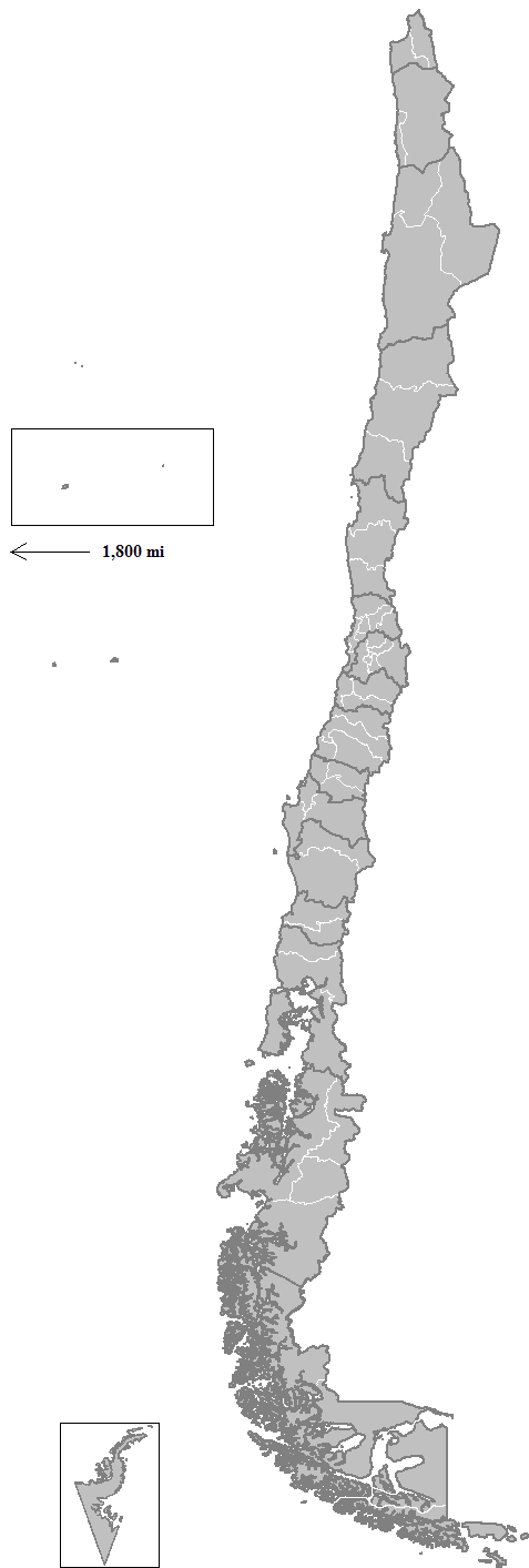 Map of the provinces of Chile. Created by Rarelibra 16:03, 11 April 2007 (UTC) for public domain use, using MapInfo Professional v8.5 and various mapping resources.